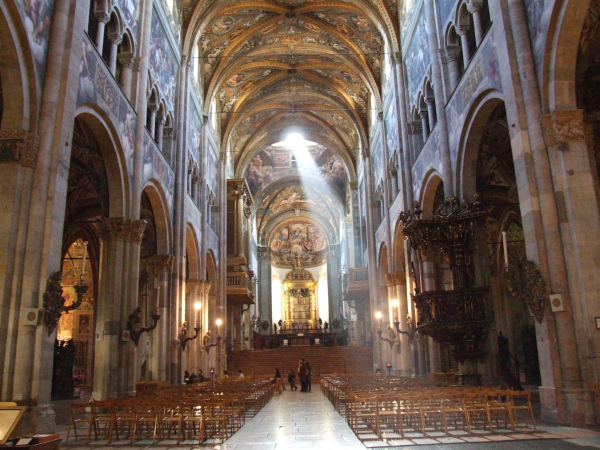 Duomo di Parma (Cathedral of Parma), Parma, Italy - Looking toward the altar